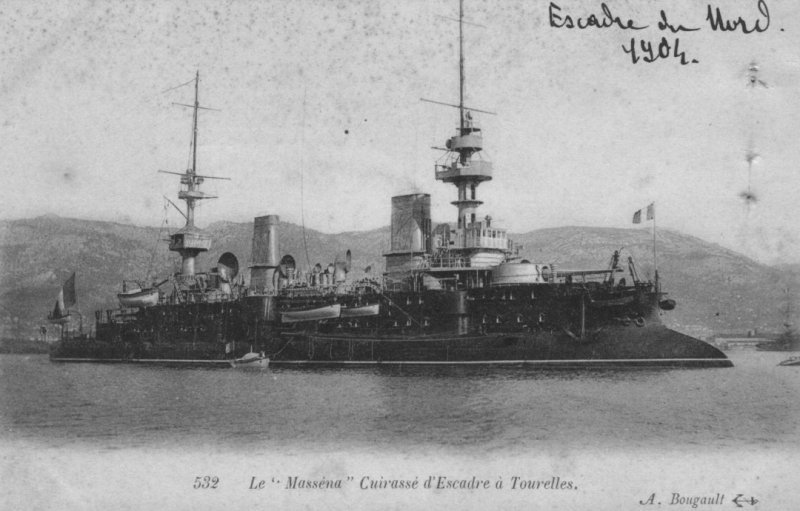 French battleship Masséna